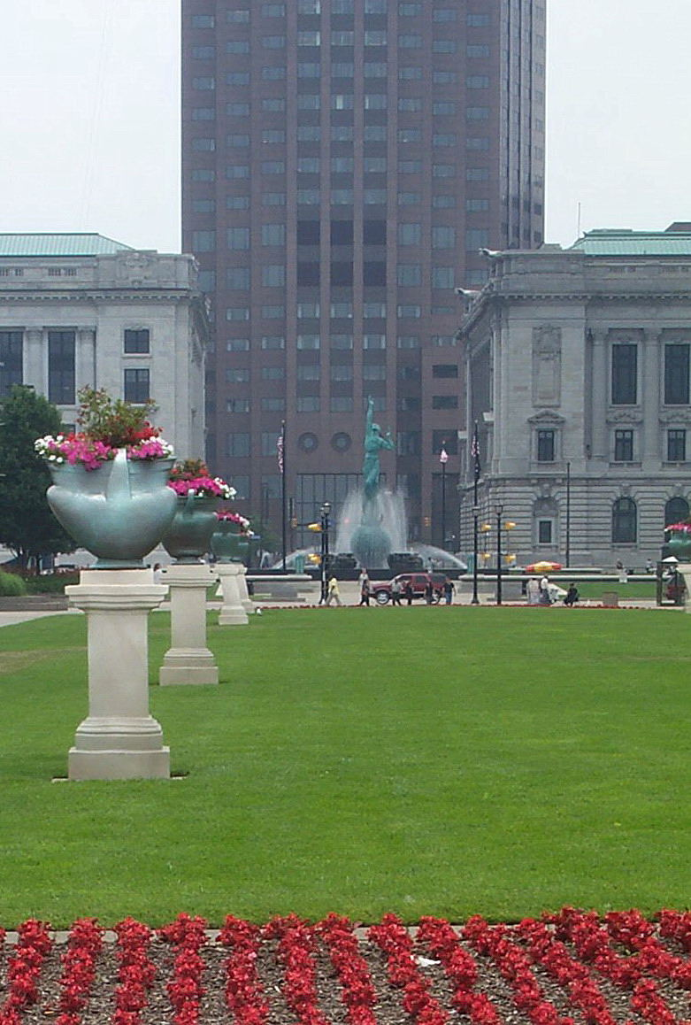 The Mall in downtown Cleveland, Ohio